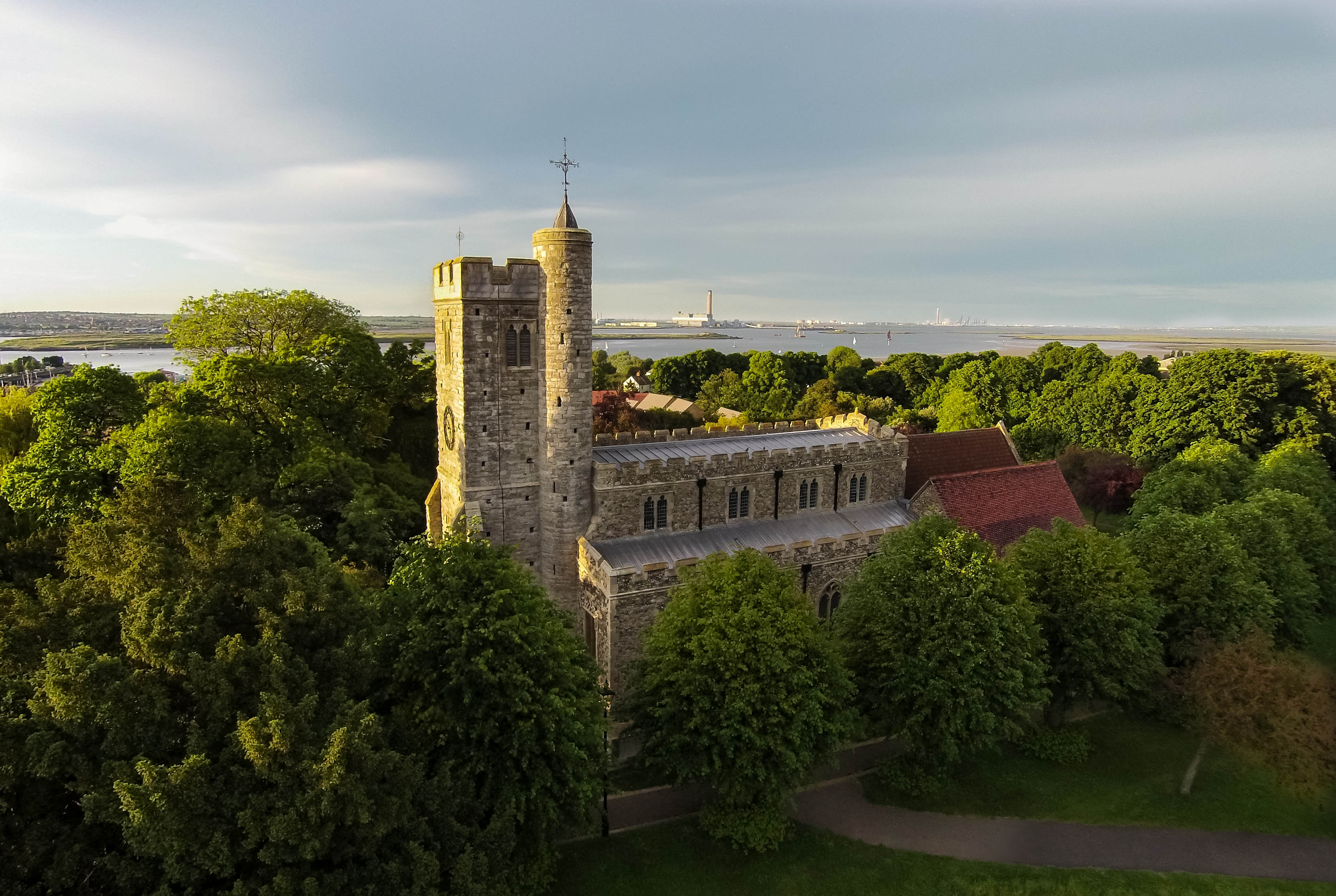 View of St Mary Magdeline Church towards the River Medway